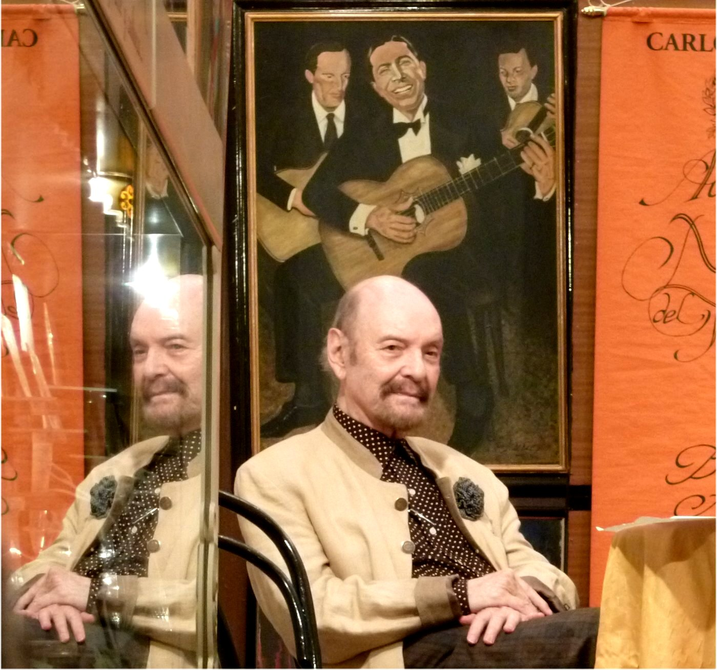 Horacio Ferrer, Argentina-Uruguayan tango writer. At the National Tango Academy of Argentina